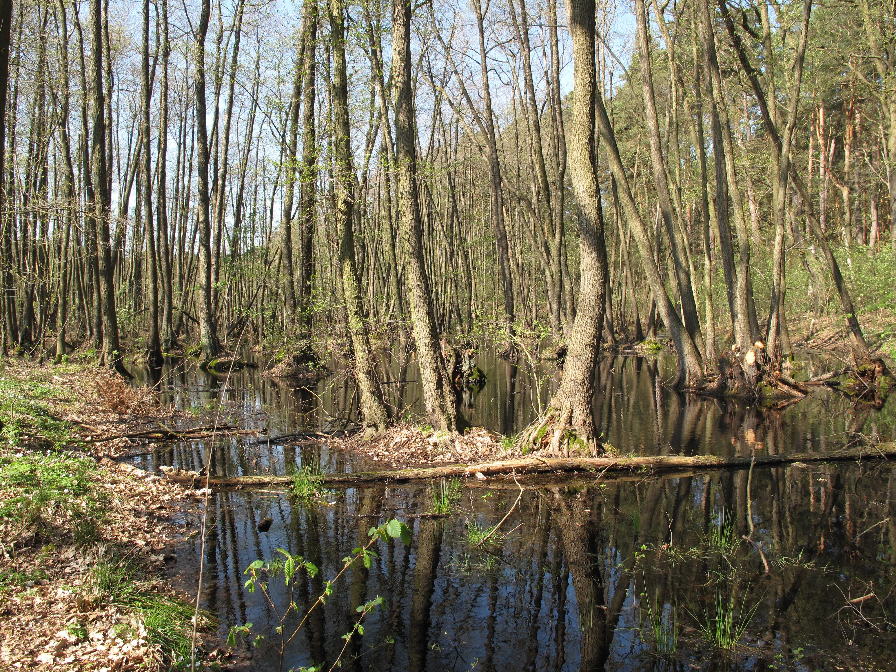 Bog/Alder forest in the municipality Nuthetal, district Potsdam-Mittelmark, state Brandenburg, Germany.